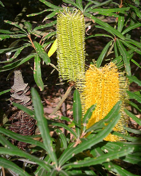 Banksia seminuda flowers and cone.